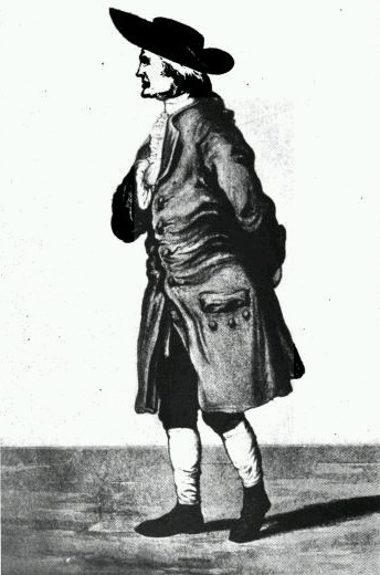 Old picture from F. Moore's History of Chemistry, published in 1901